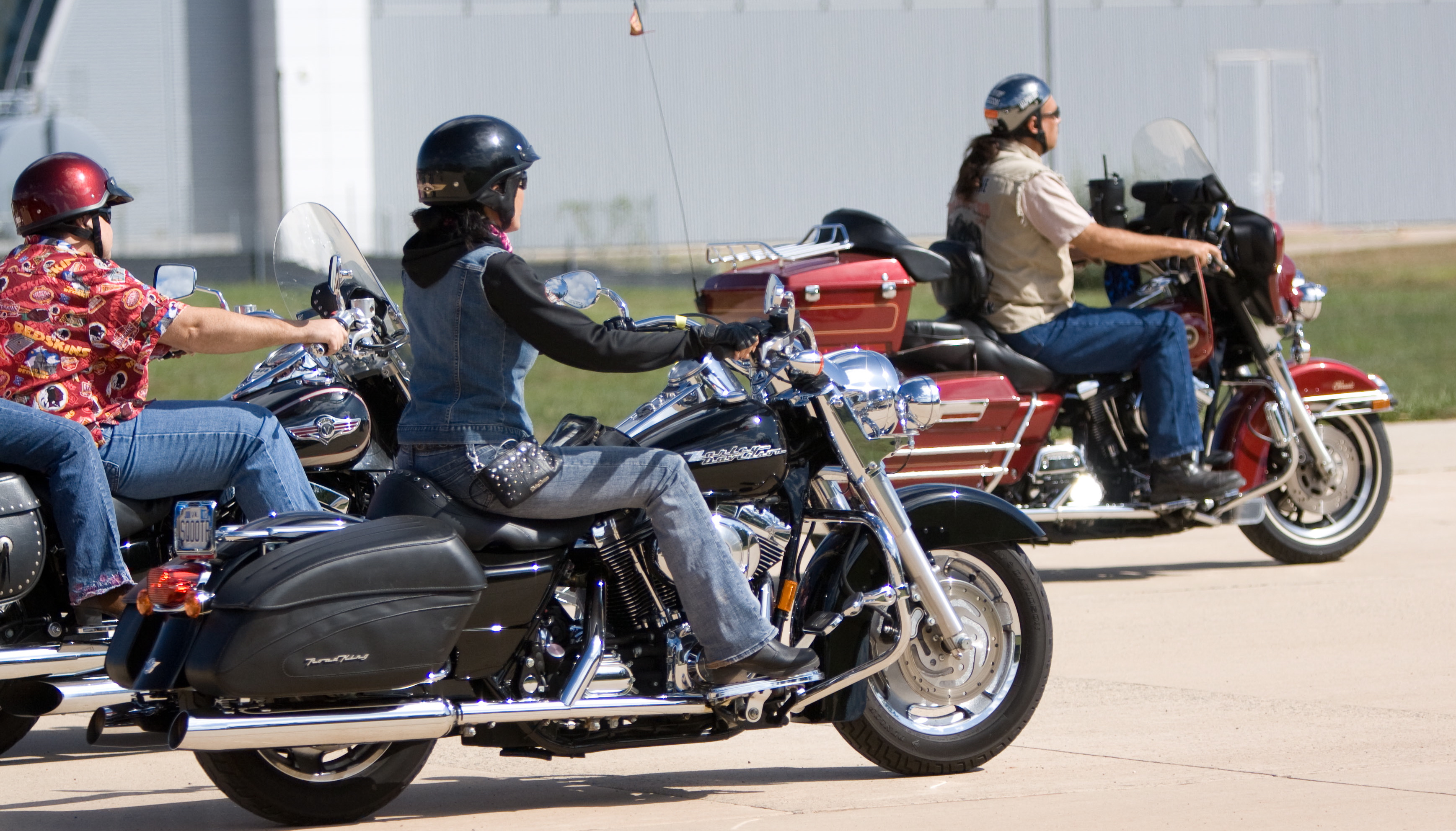 Rattle the Runway Ride 2009